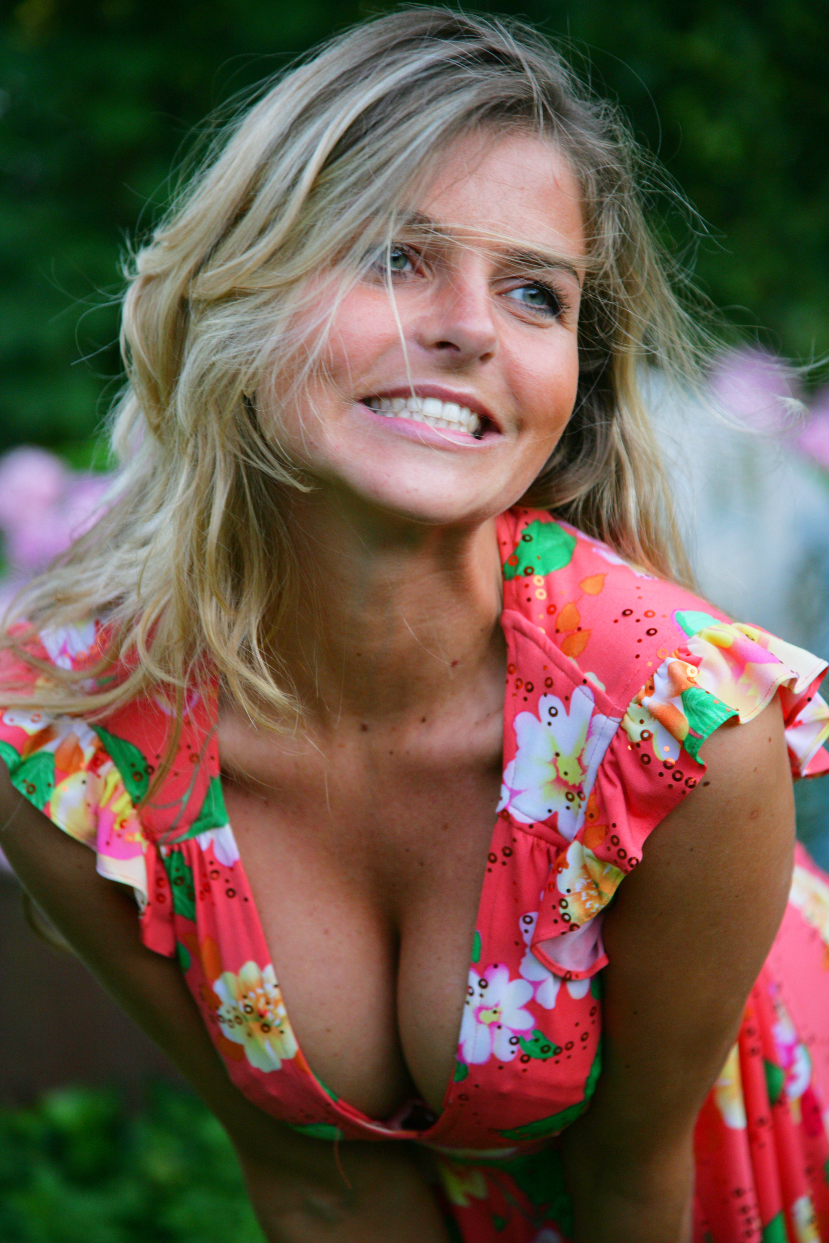 Dutch woman. Work by Dutch artist Peter Klashorst.